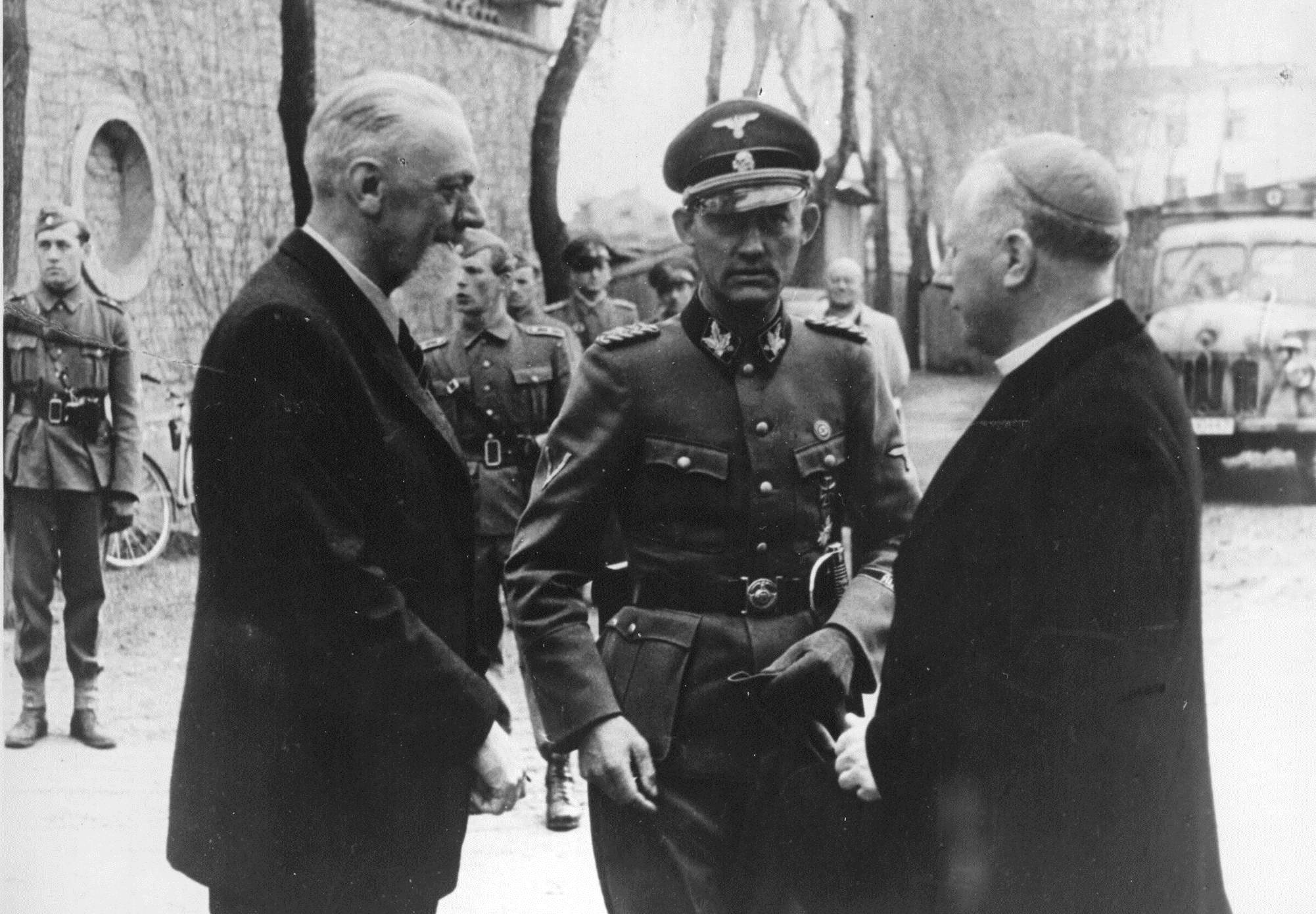 Lev Rupnik, SS-Gruppenführer Erwin Rosener and Gregorij Rožman